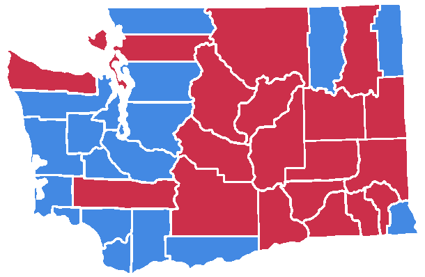 Washingotn state senate election by counties